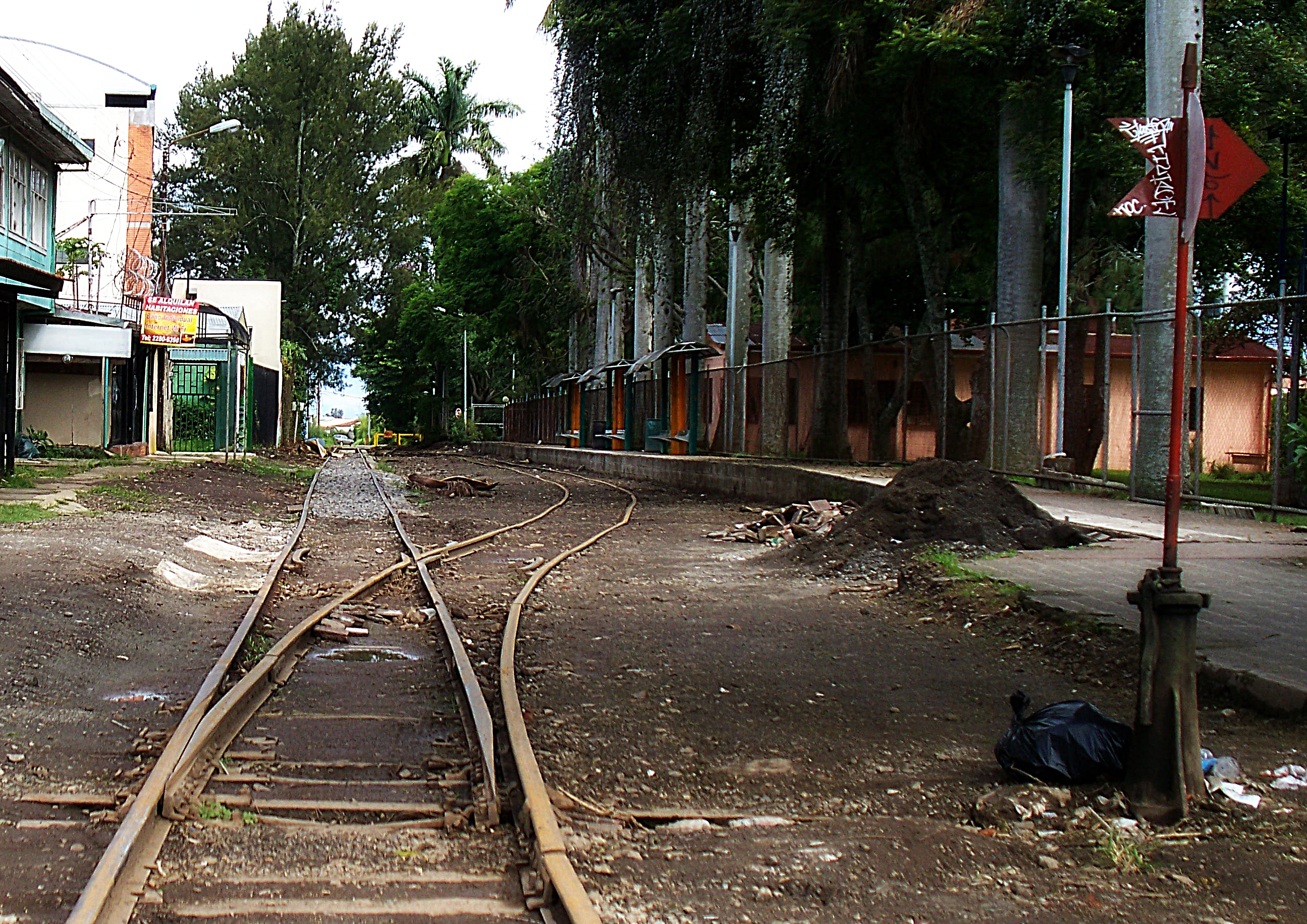 Siding near university, Montes de Ocoa, San Jose, Costa Rica